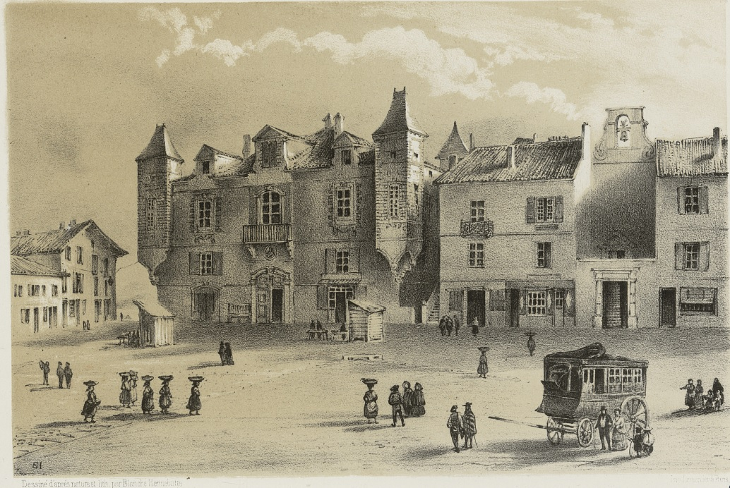 Main square of Saint-Jean-de-Luz, House of Louis XIV